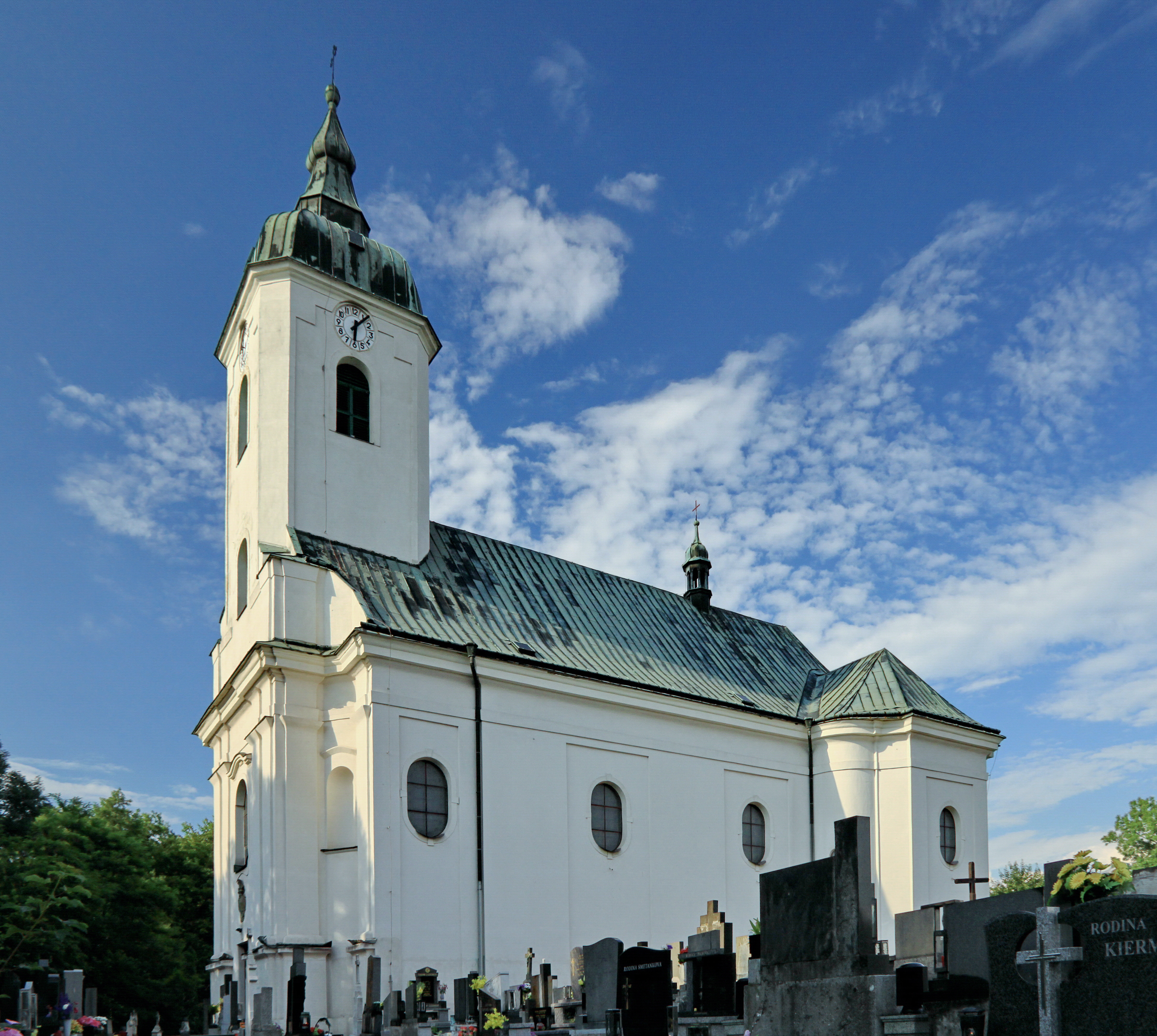 Church of Saint John the Baptist, Dolní Lutyně. Moravian-Silesian Region, Czech Republic.